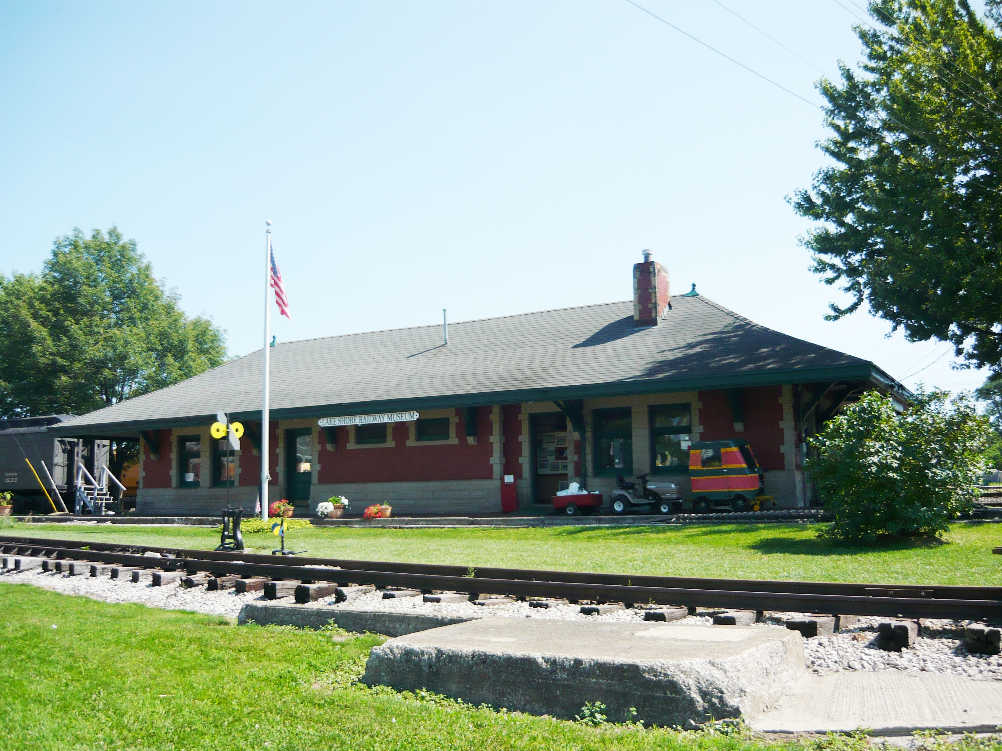 Lake Shore Railway Historical Society Museum, 31 Wall Street at Robinson Street, (Borough of) North East, Erie County, Pennsylvania. Former New York Central Railroad depot.